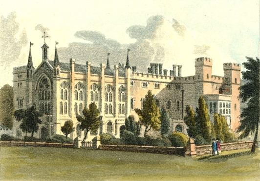 Cassiobury, From J Hassell's Picturesque rides and walks, with excursions by water, thirty miles round the British metropolis; illustrated in a series of engravings, coloured after nature, with an historical and topographical description of the country with the compass of that circle. 1817-18.